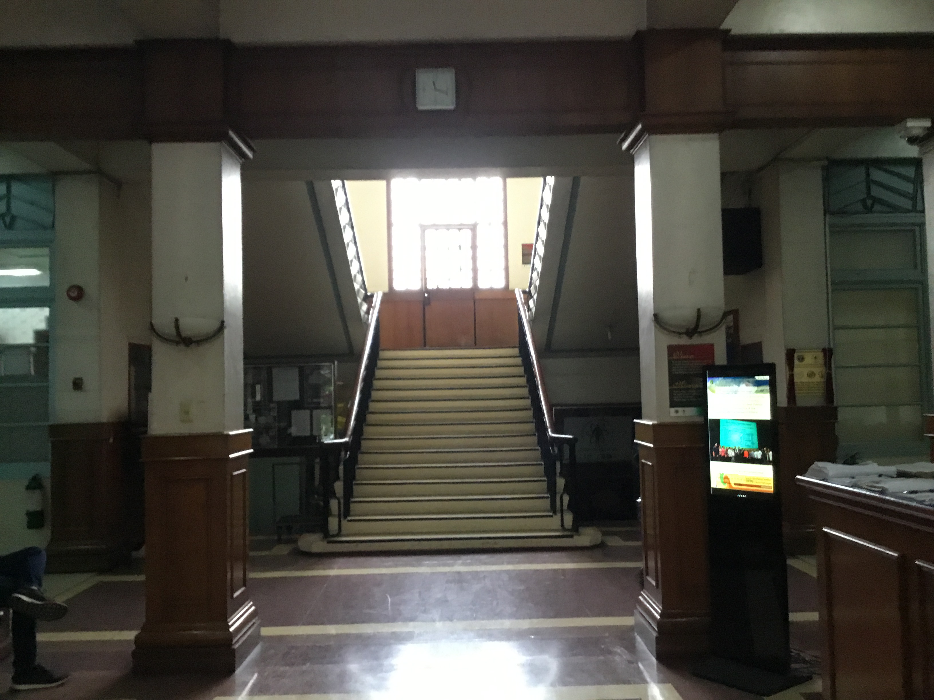 UP Manila National Institutes of Health